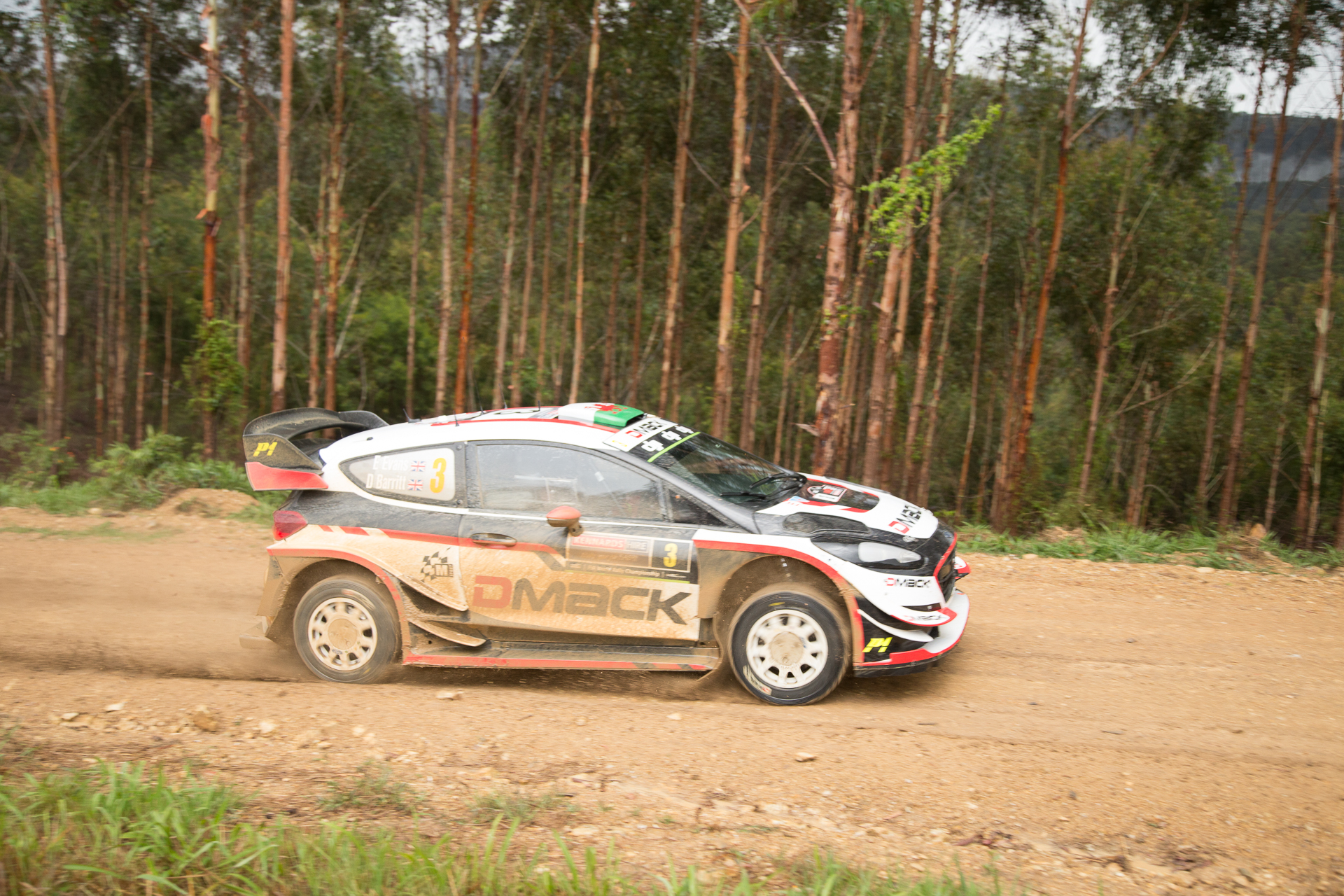 Rally Australia 2017